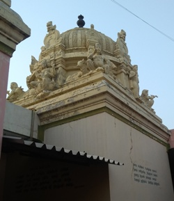 Vimana of the presiding deity, Annamalayar Temple, Punchei Puliyampatti, Erode district, Tamil Nadu